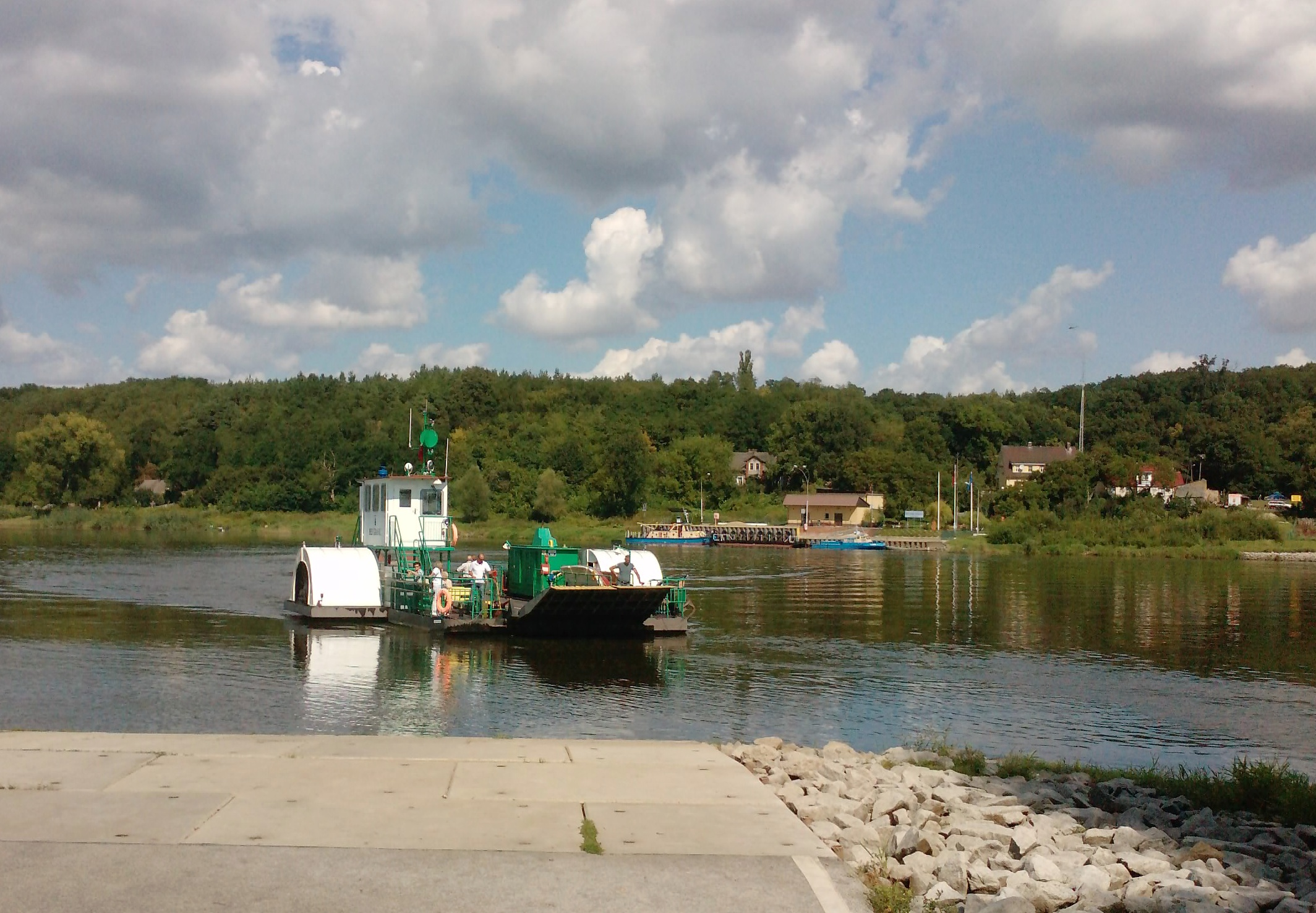 Ferry at the Oder river between Gozdowice, Poland, and Güstebieser Loose, Germany